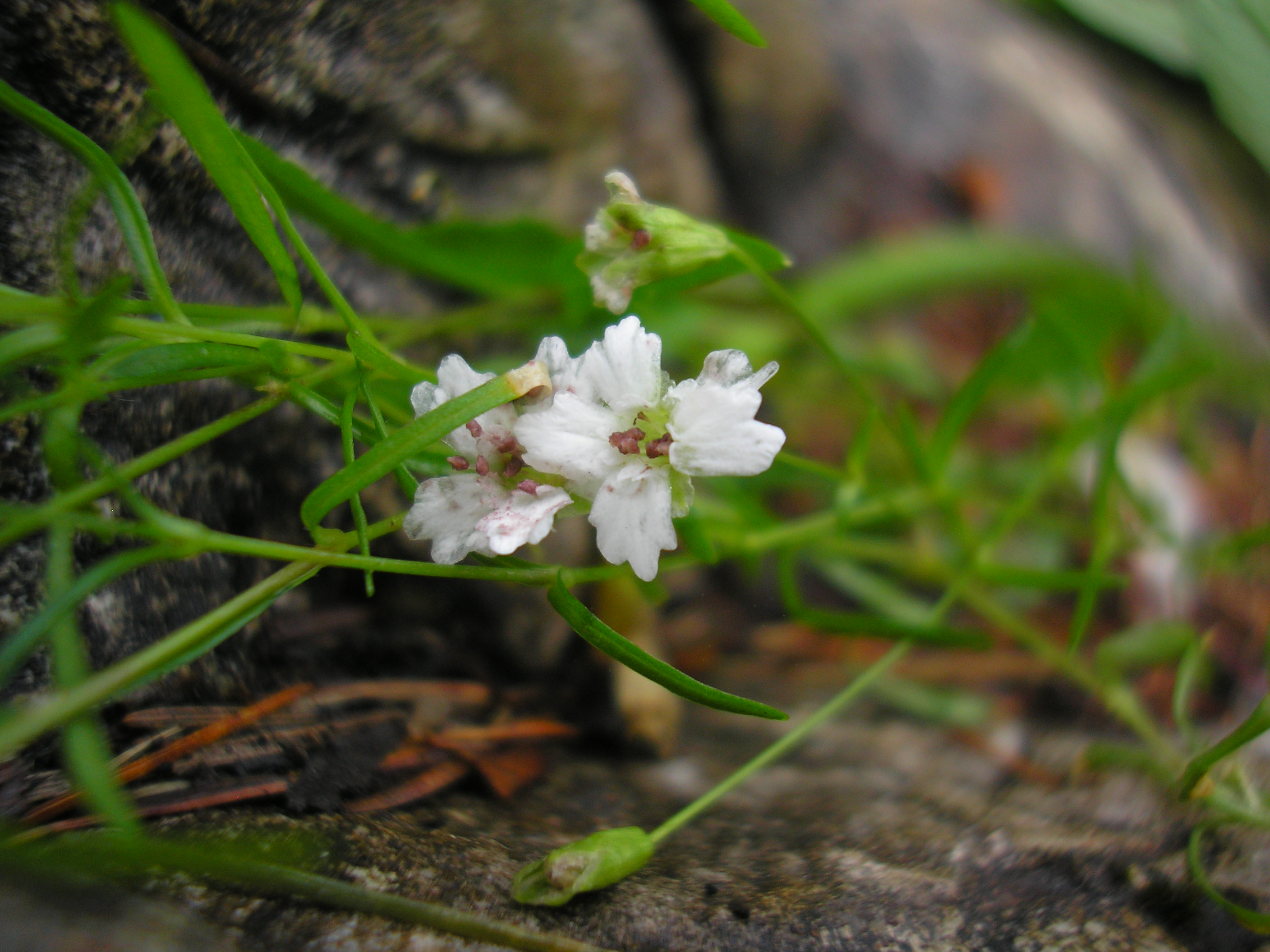 Smut Fungi Microbotryum violaceum on Silene pusilla (valid synonym : Heliosperma pusillum) anthera (Germany)